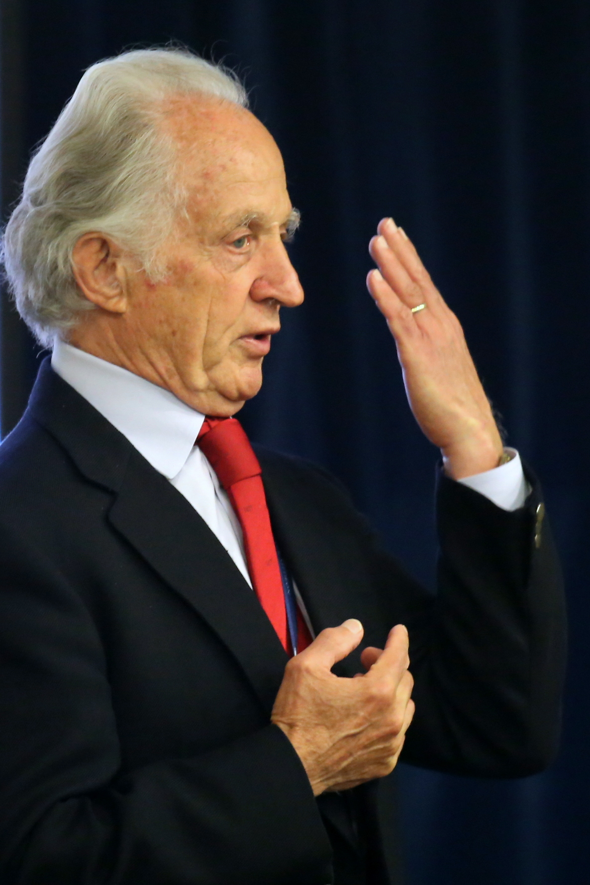 Mario Capecchi, Conference on Transposition and Genome Engineering 2013, Budapest